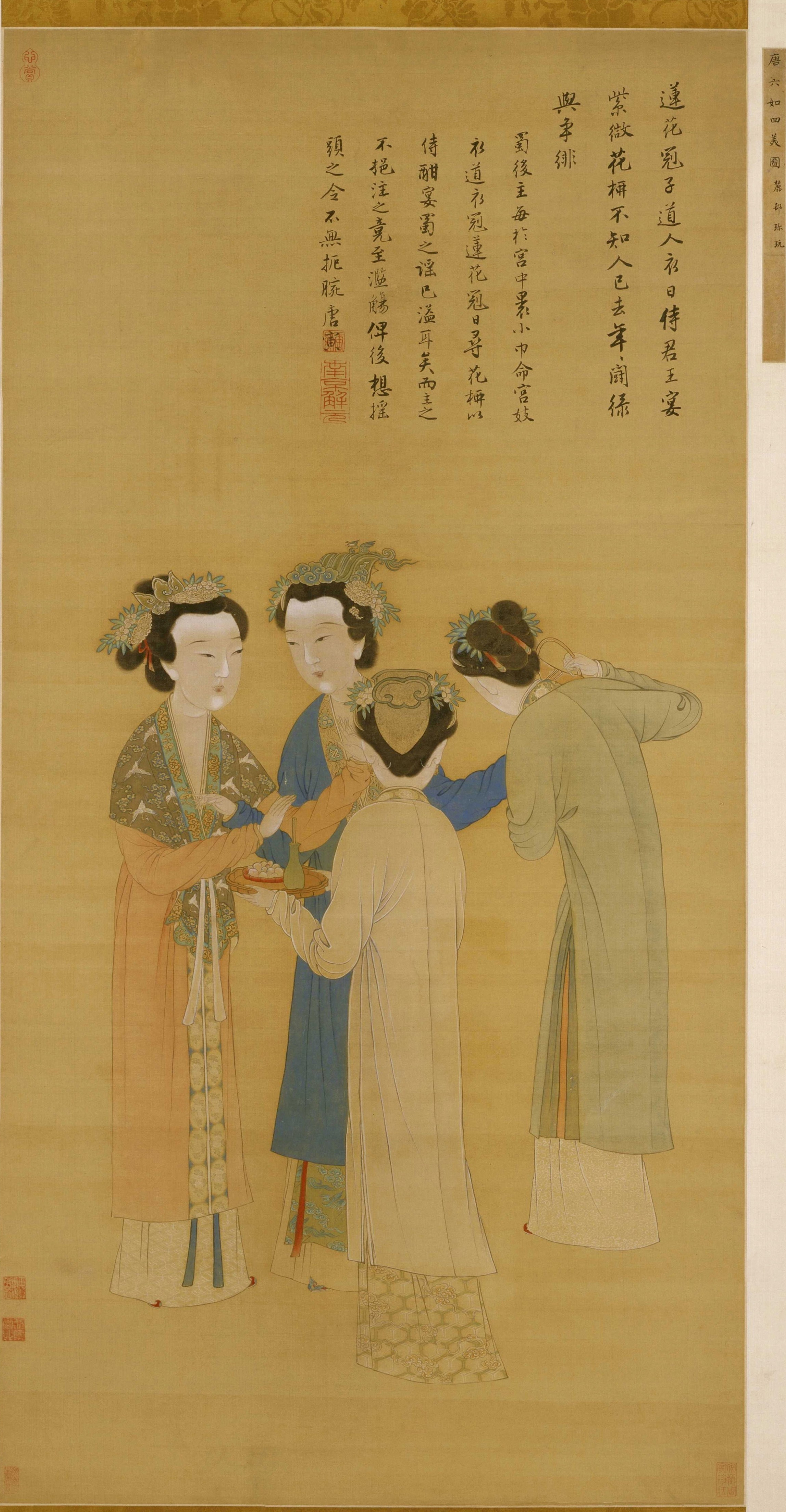 Court Ladies of the Former Shu by Tang Yin, hanging scroll, colors on silk (王蜀宮妓圖 絹本墨画)